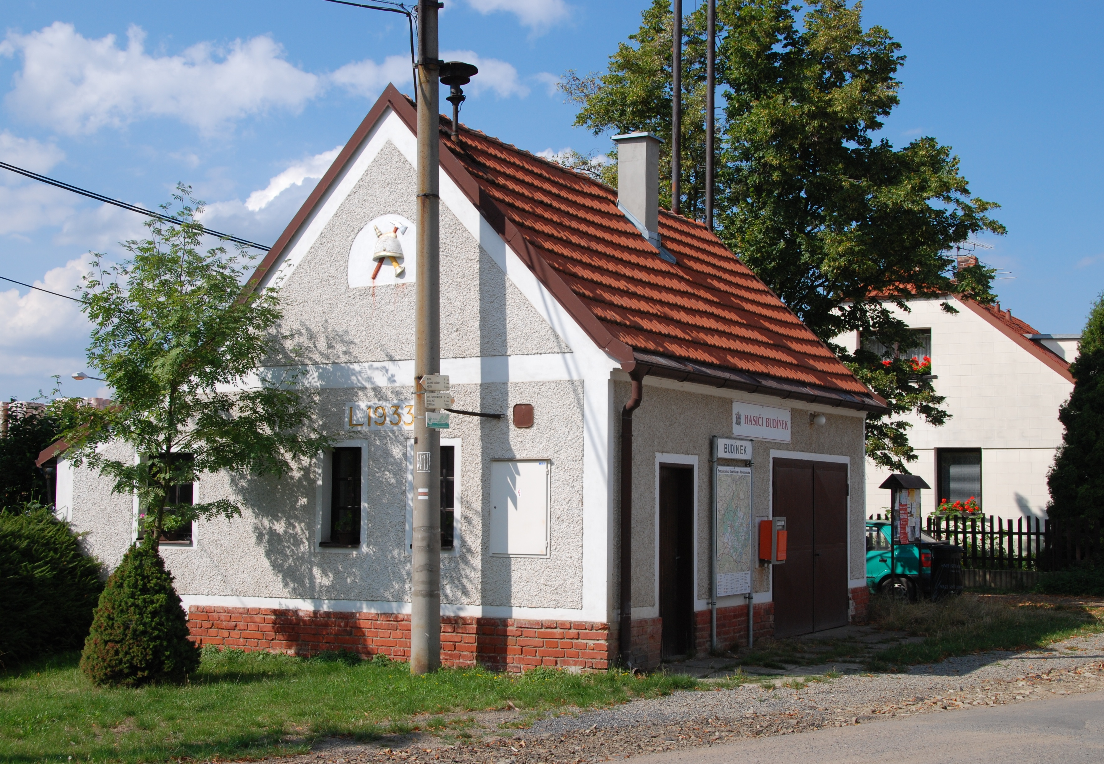 This photograph was taken within the scope of the second year of the 'Czech Municipalities Photographs' grant.